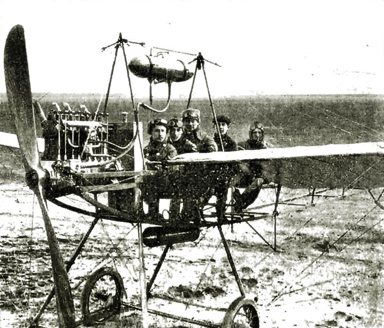 The German flight pioneer Siegfried Hoffmann at the world record for passenger flights at the airfield Berlin-Johannisthal in 1912. His machine was an Harlan-monoplane (of Carl Wolfgang Harlan (1882-1951)) of the "Harlan Flugzeugwerke GmbH" with a 100 PS - Argus motor (= "Military-type" of the airplane). This world record flight took place on the 8 March 1912 at the airfield Berlin-Johannisthal with the passengers (Oberleutnant) von Eichstädt, Tourbier, Kühn, and Bors, and lasted 32 minutes and 39 seconds. During this flight was transported beside of 40 kg fuel a net load of 385,5 kg.